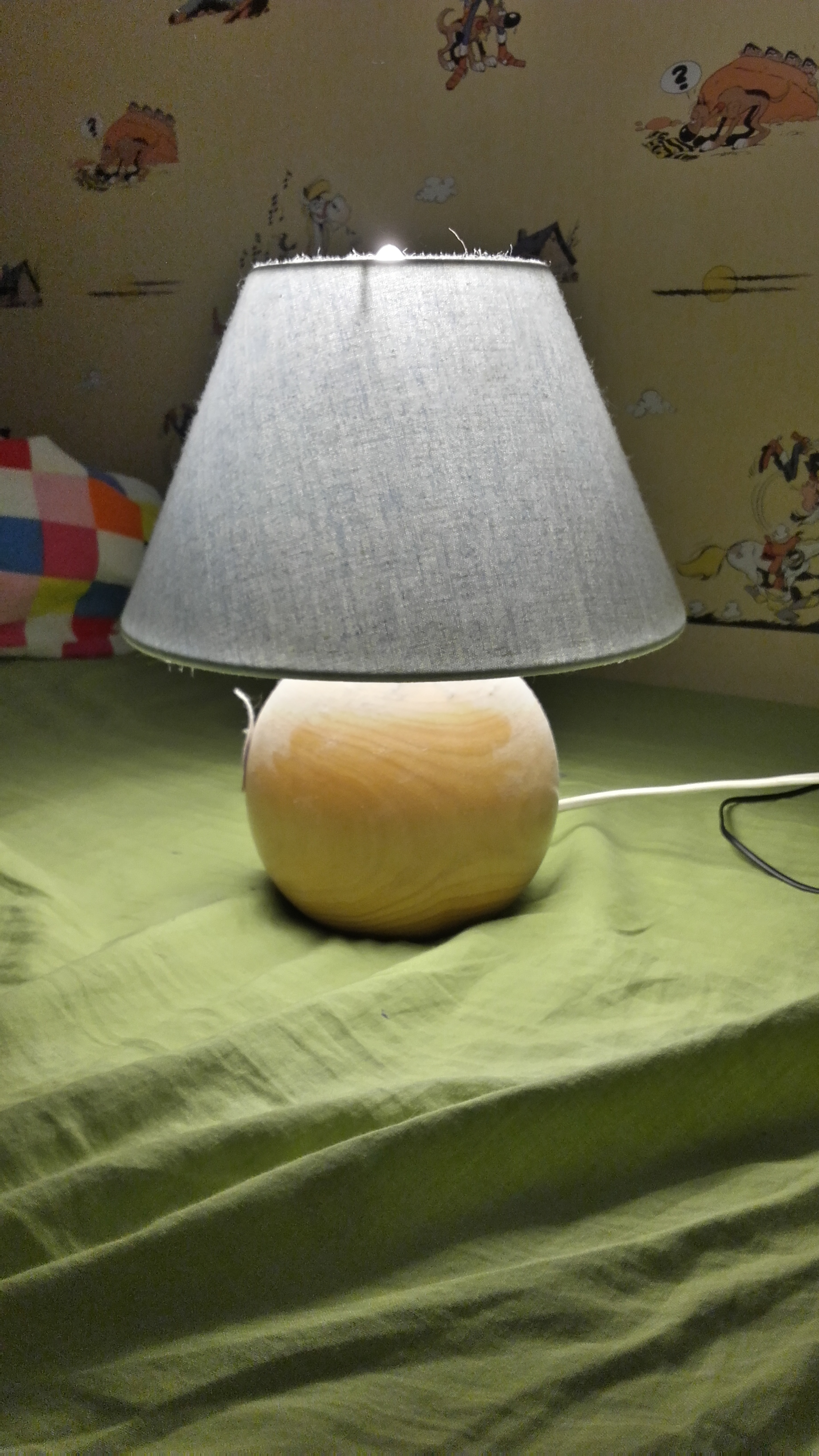 Une lampe de chambre